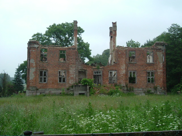 Description: 17. Jh. Herrenhaus Goldenbow, Mecklenburg, Deutschland; 17th century mansion Goldenbow, NMecklenburg, Germany Date: June 2004 Photographer: Viola Rühse Permission: Viola Rühse has agreed to use this photograph under the below mentioned license